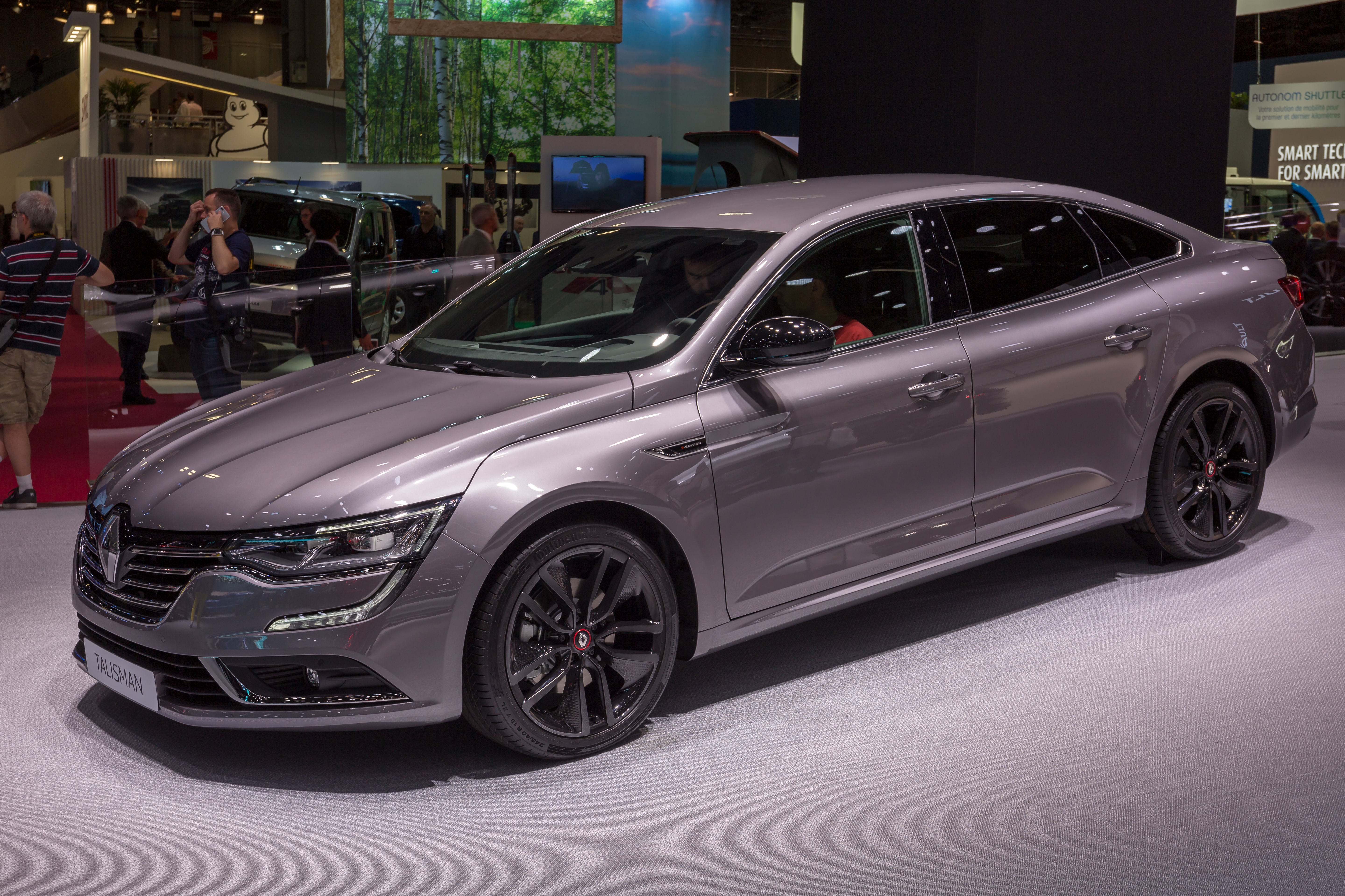 Renault Talisman S-Edition, Mondiale Paris Motor Show 2018